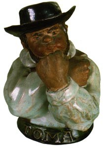 Image of Zé Povinho, portuguese caricature created by Rafael Bordalo Pinheiro